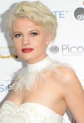 London,England, 1st Nov 2014 : Chloe-Jasmine and Blonde Electra attends MyFaceMyBody Awards 2014 at the Royal Garden Hotel in Kensington in London. Photo by See Li